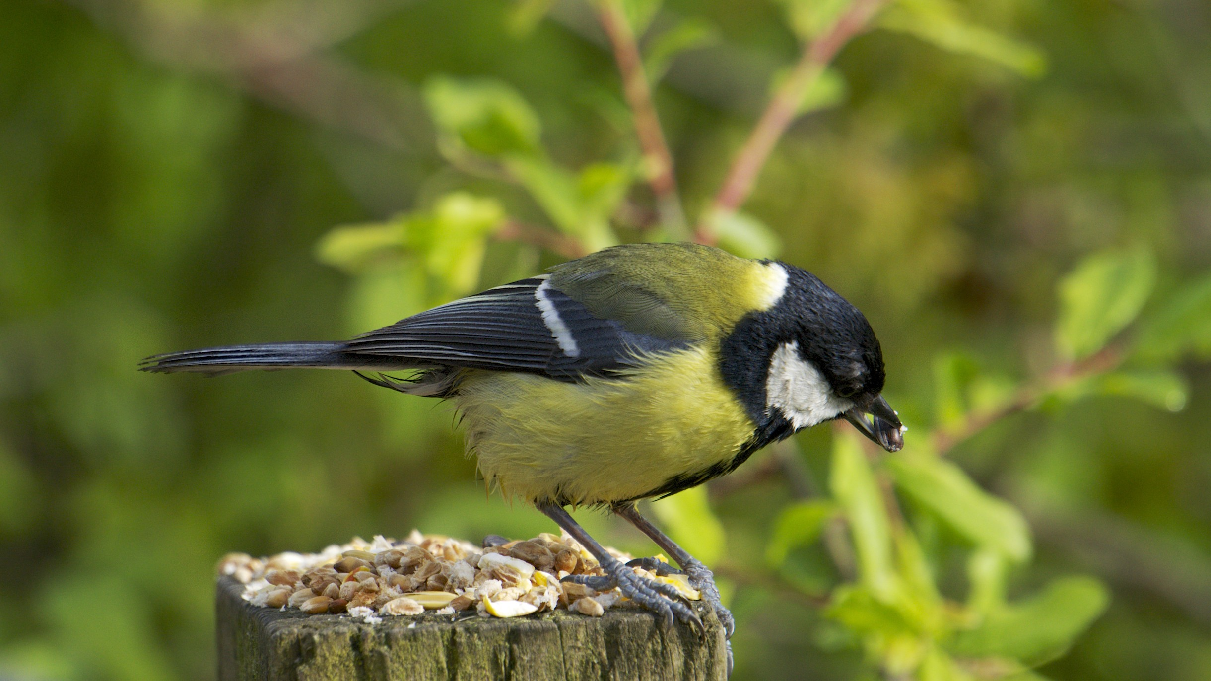 Upton Country Park. Poole. Dorset